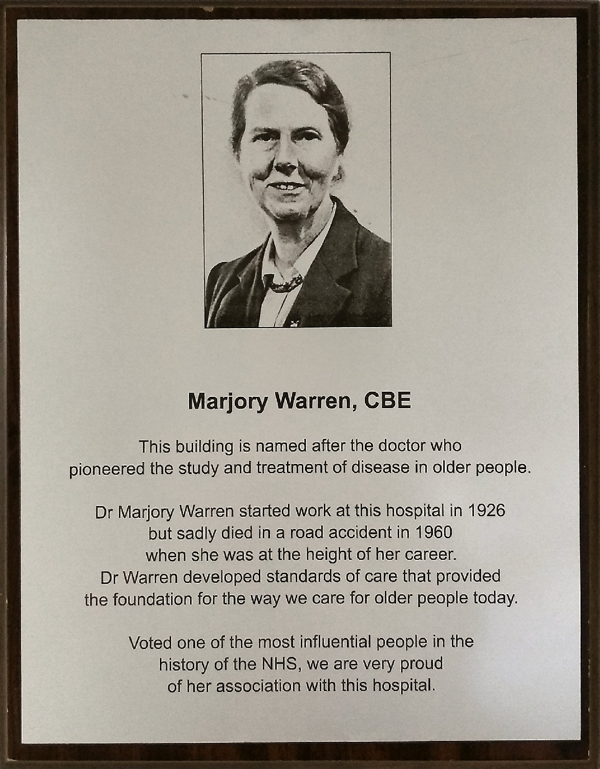 Marjory Warren plaque, West Middlesex University Hospital